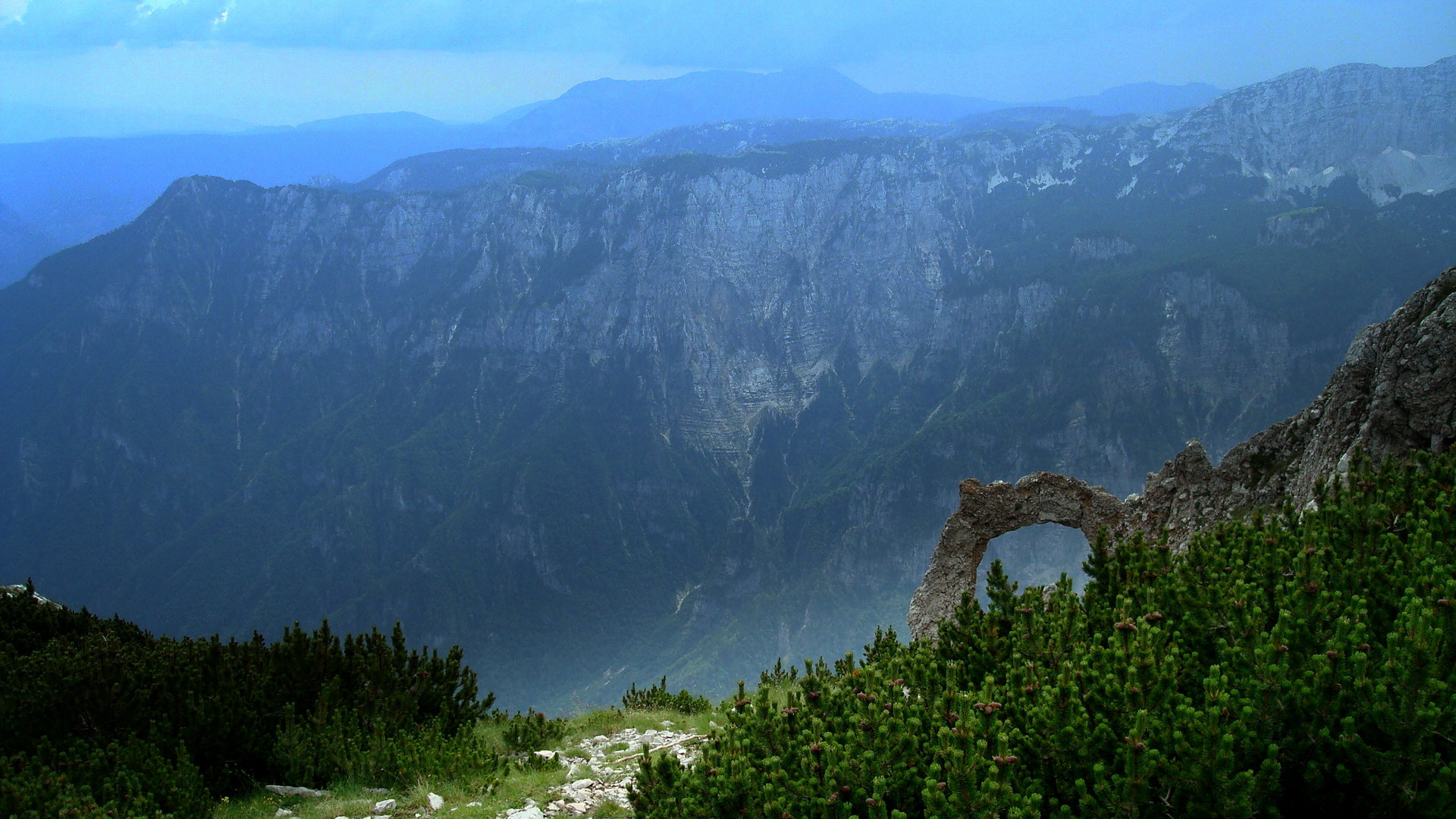 Hajdučka Vrata, Čvrsnica, Municipality of Jablanica, Bosnia and Herzegovina.